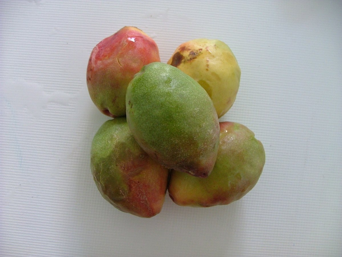 Terminalia catappa fruits from Bandar Abbas, Iran